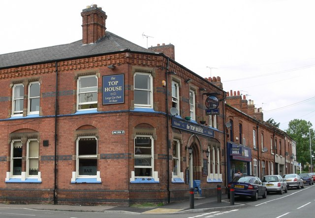 The Top House Public House at the corner of Melton Road and Unicorn Street in Thurmaston.